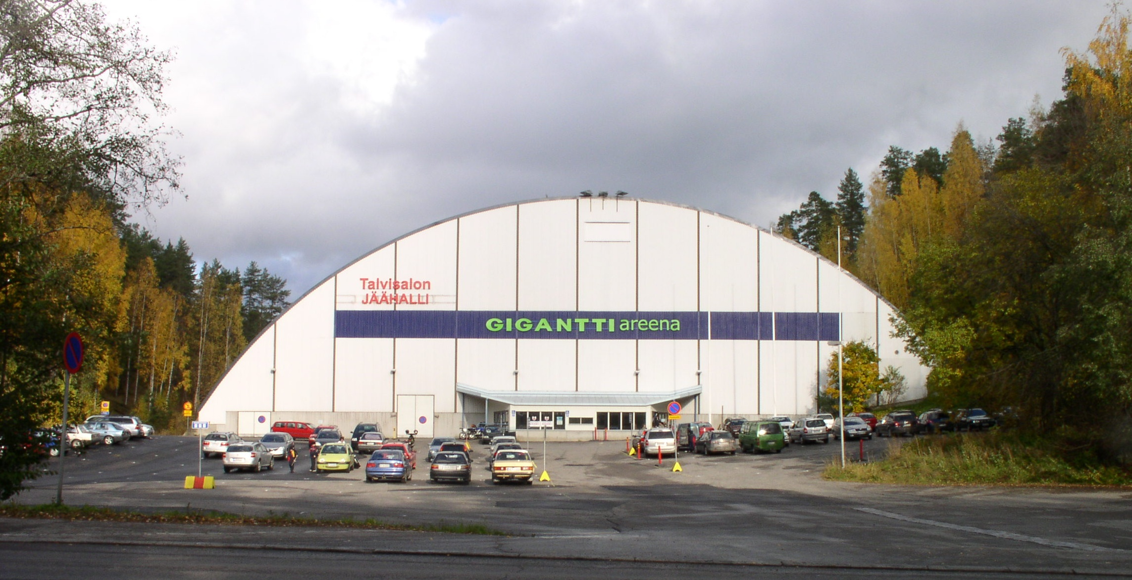 Talvisalon jäähalli (ice hockey venue) in Savonlinna, Finland.